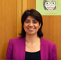 Labour - Feltham and Heston